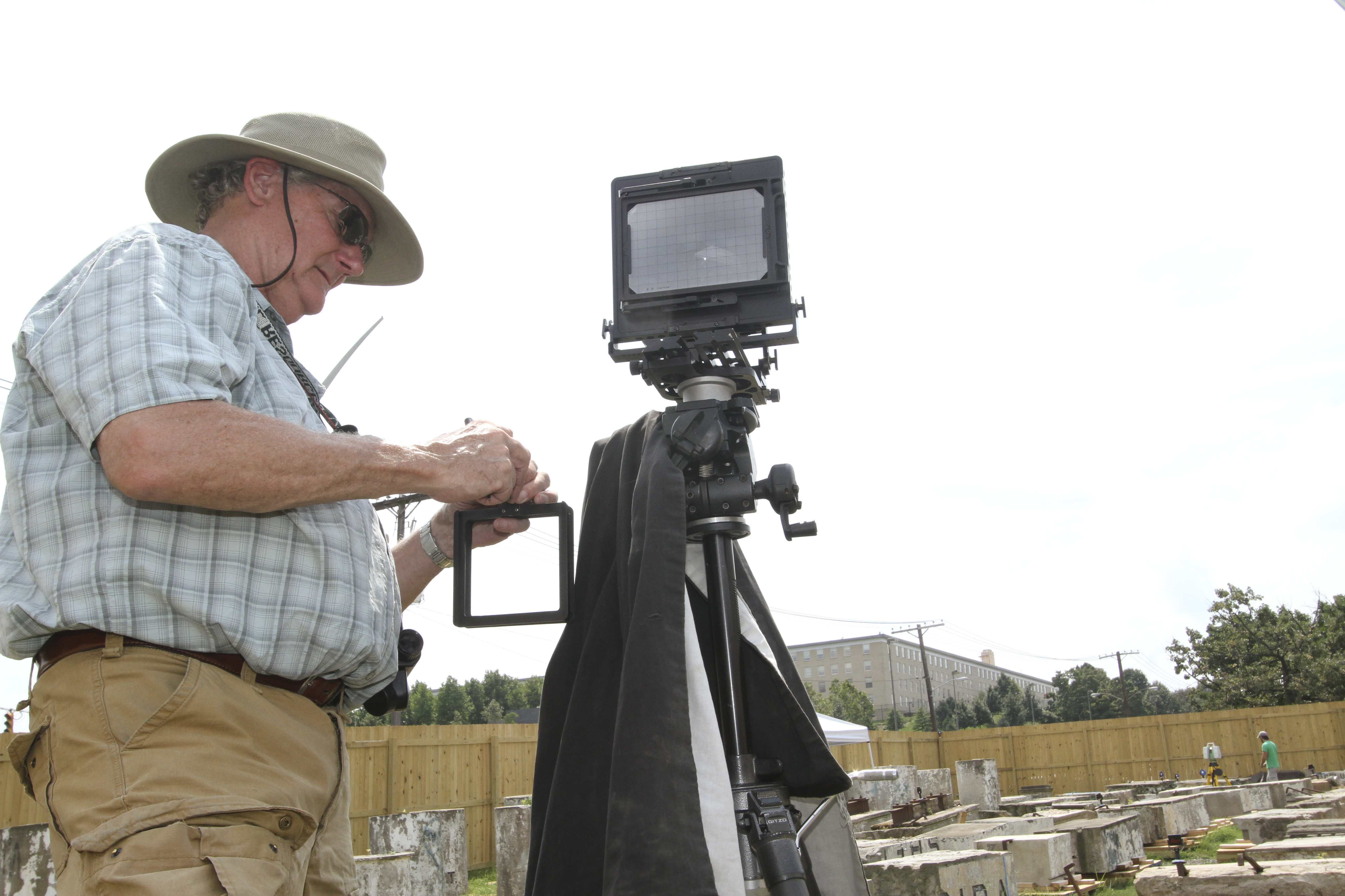 Photographer Jet Lowe, whose work makes up much of the Historic American Engineering Record, sets up his camera to take photos of former sandstone columns at Arlington Cemetery in August 2012.